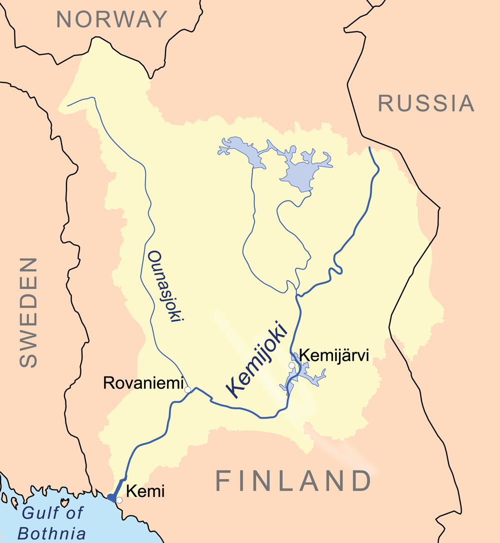 This is a map of the Kemijoki River. I, Karl Musser, created it based on USGS data.